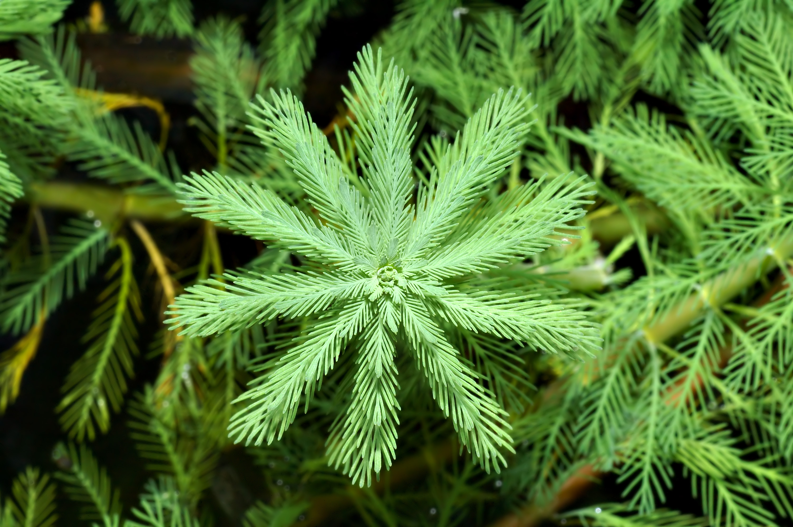 This image shows a Parrotfeather (Myriophyllum aquaticum).